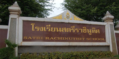 is lovely in your like